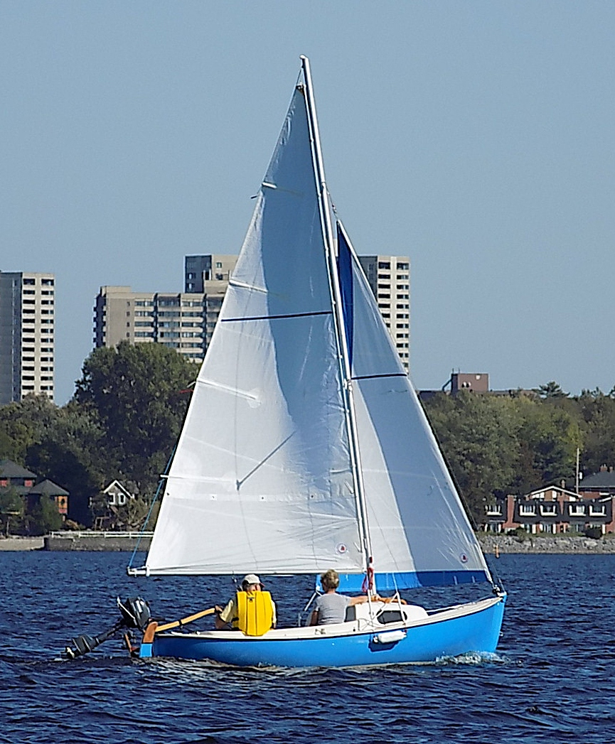 A Nordica 16 sailboat on Lac Deschênes, part of the Ottawa River, Ottawa, Ontario, Canada.